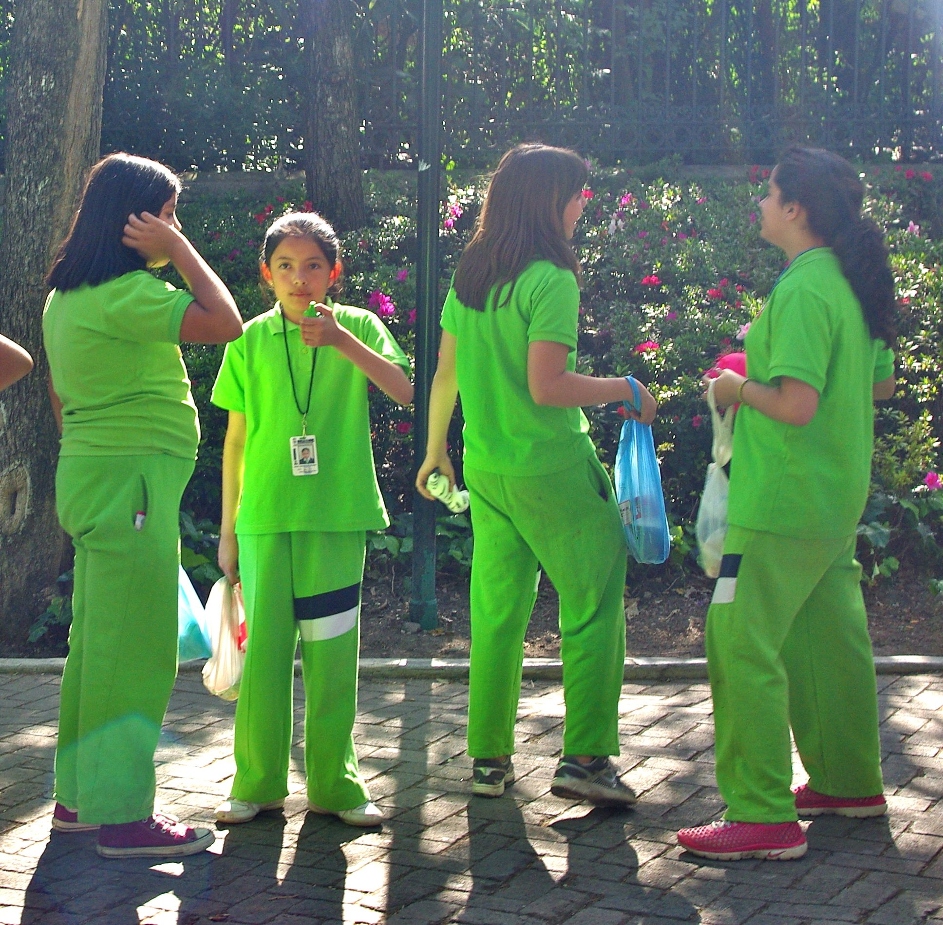 Four Mexico City children in green school uniforms, standing in a public park, March 2010. Other information Photo by George Garrigues.